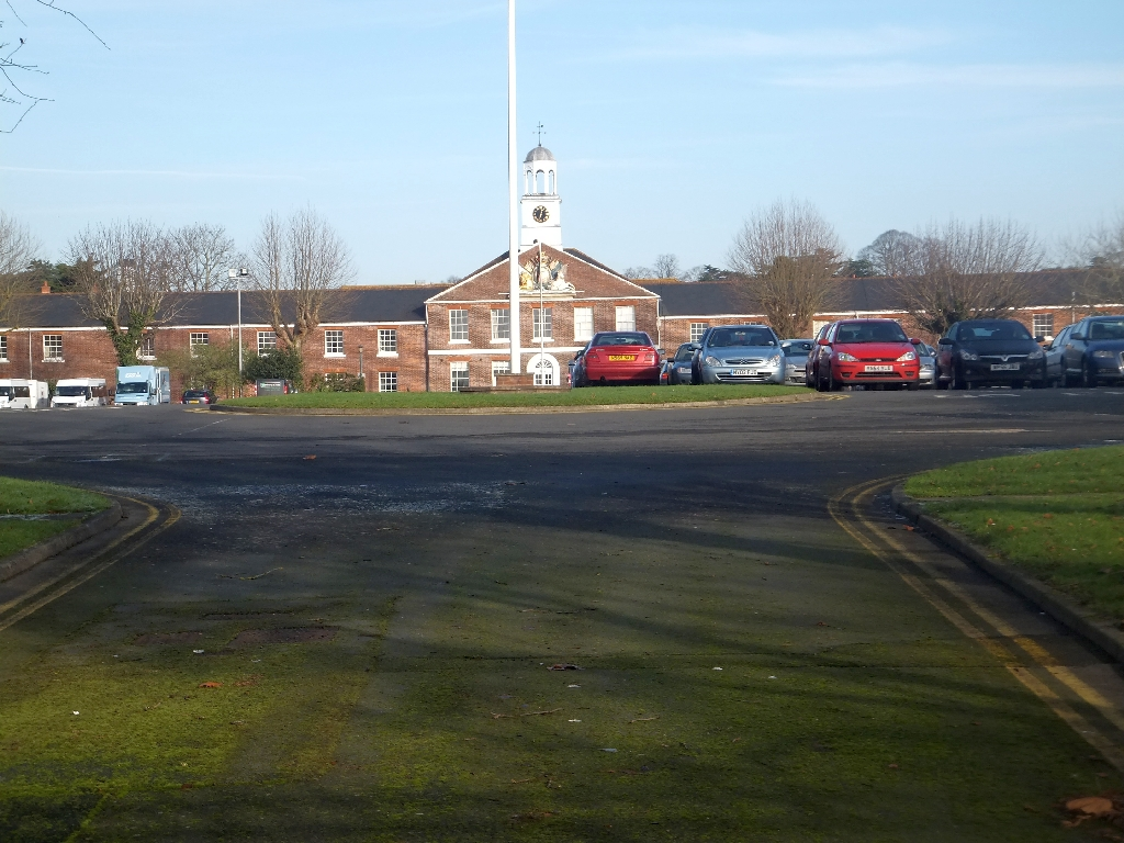 Barracks in Topsham Road Exeter (Wyvern Barracks)